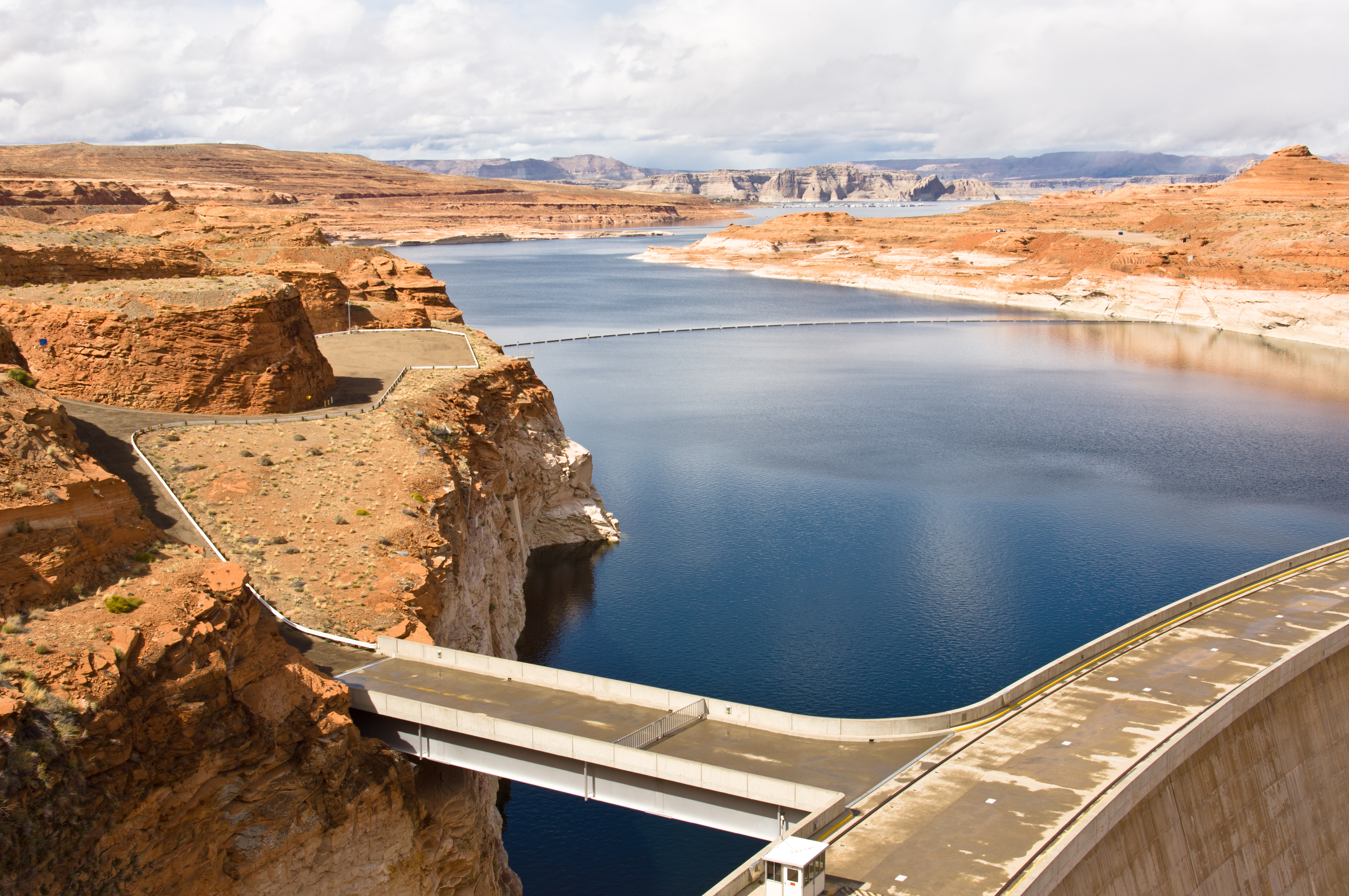 Lake Powell seen from Glen Canyon Dam.